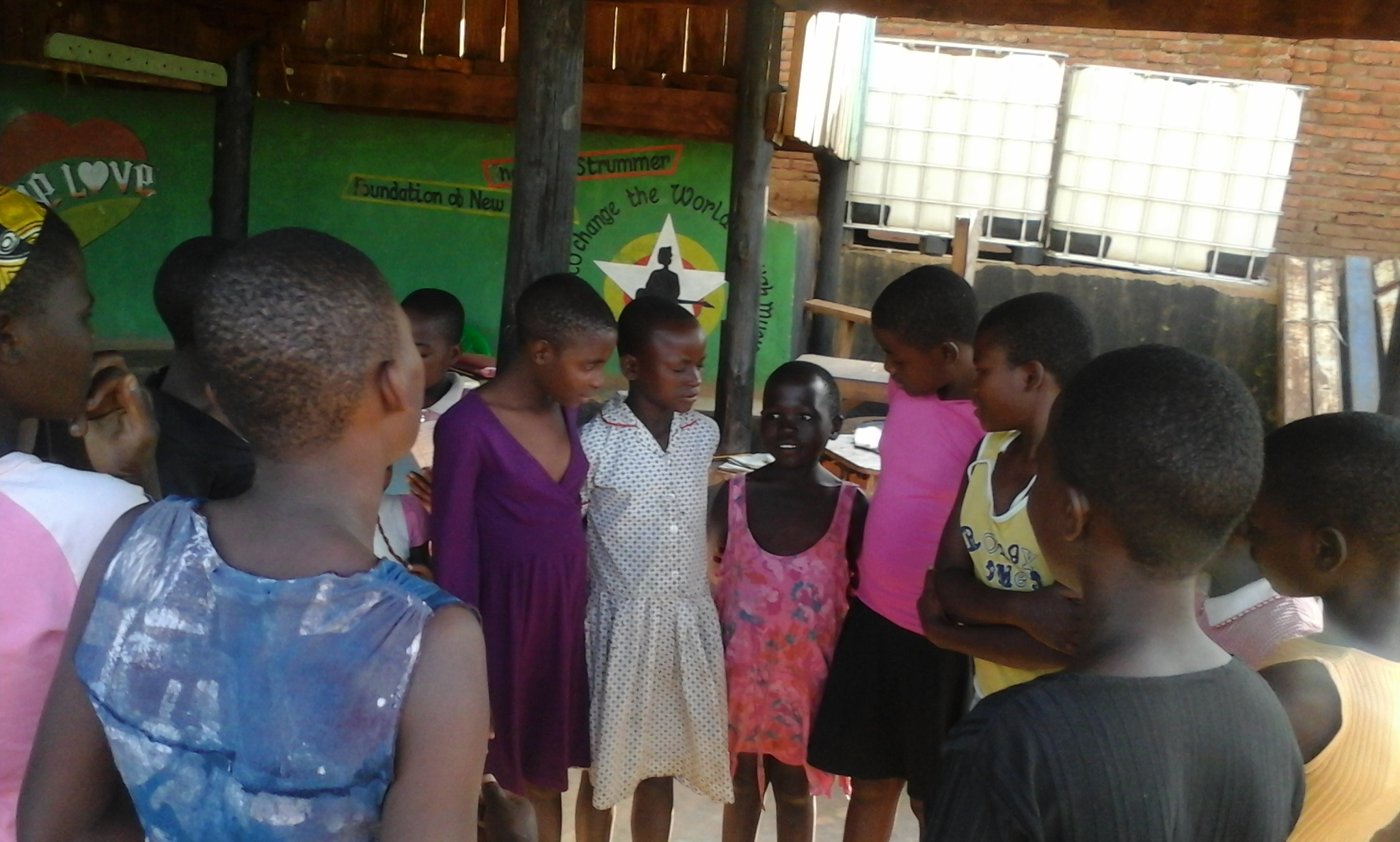 The PIcture of orphaned girl children who are housed at Tilinanu Orphanage which is an orphanage which was Founded by Alice Pulford and is ran by her and Mr Gift Mkandawire and other Love Support Unite volunteers. In the PIcture the girls are playing a game of Chinese whisper or American Telephone This is an image with the theme "Play" from: Malawi